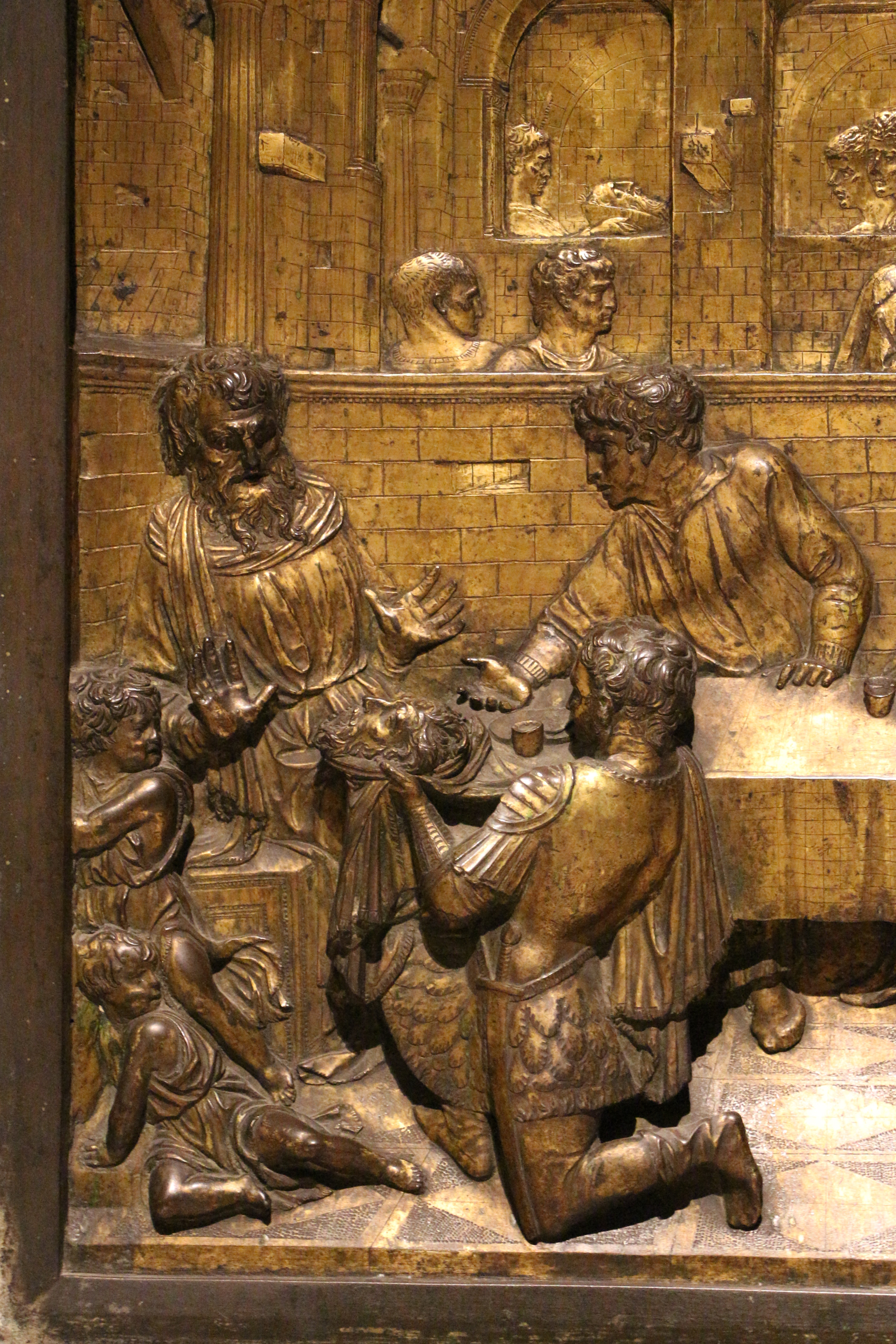 Donatello on the Baptismal font of the Siena Baptistry